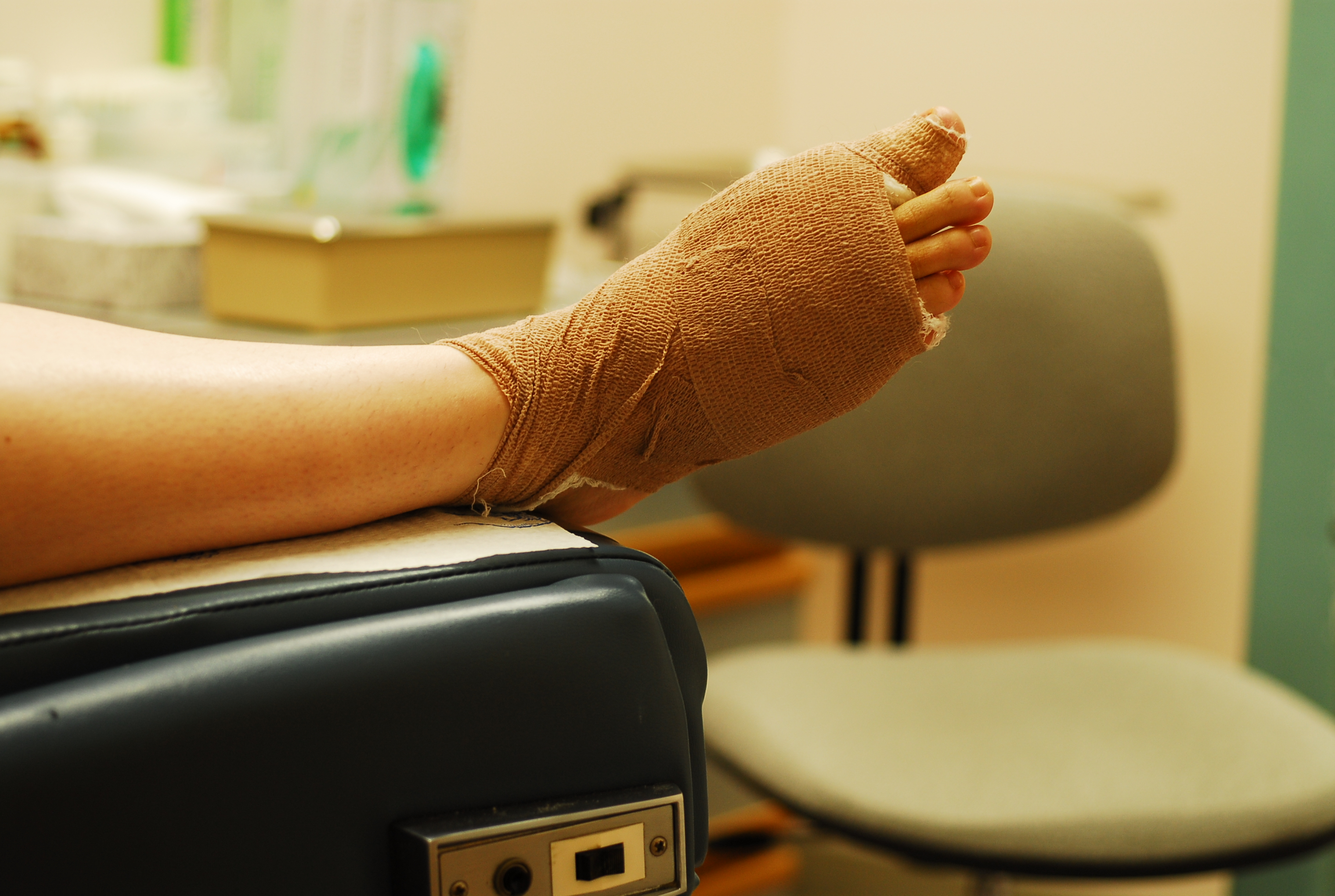 My foot all wrapped up at the podiatrist office